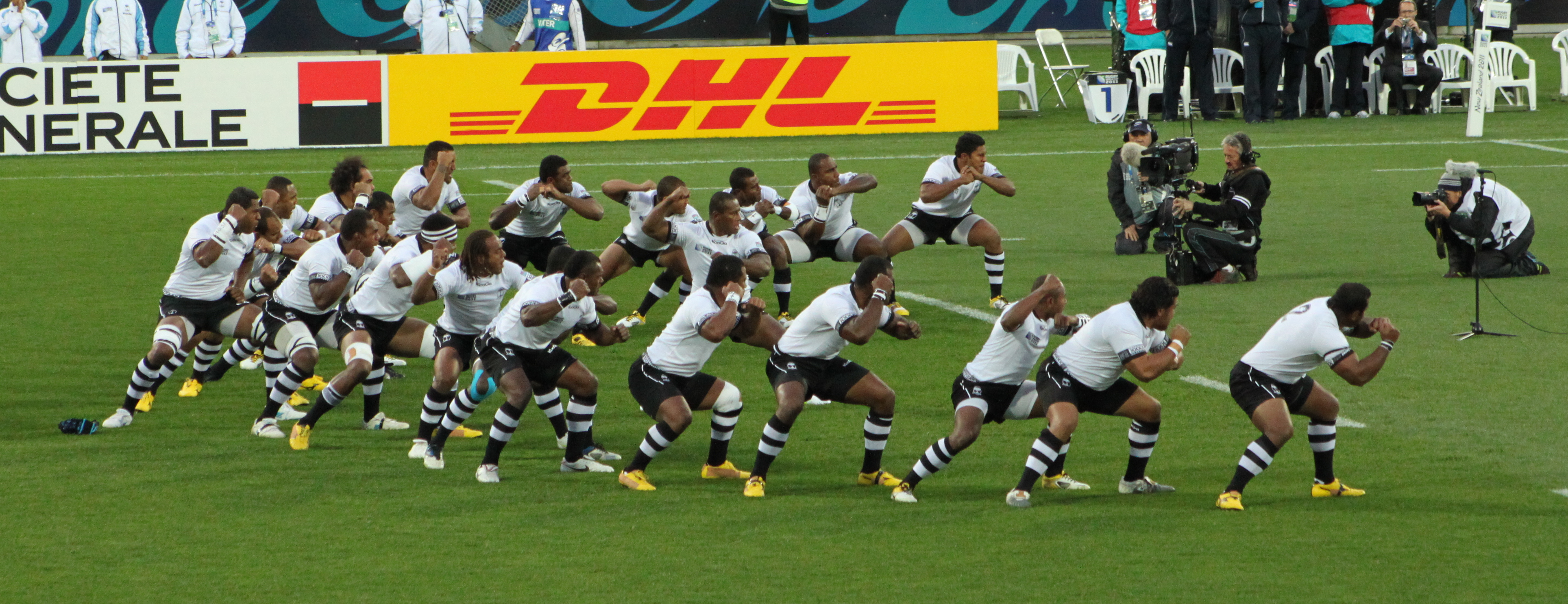 Fiji national rugby union team presenting Cibi before 2011 Rugby World Cup match against South Africa.